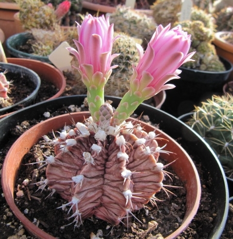 Gymnocalycium friedrichii is a synonym of Gymnocalycium stenopleurum